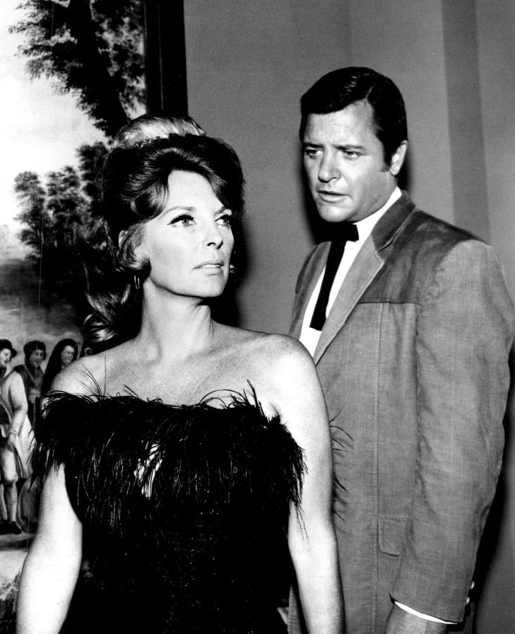 Photo of Richard Long as Jarrod Barkley and guest star Julie London from the television program The Big Valley. The episode is "They Called Her Delilah".